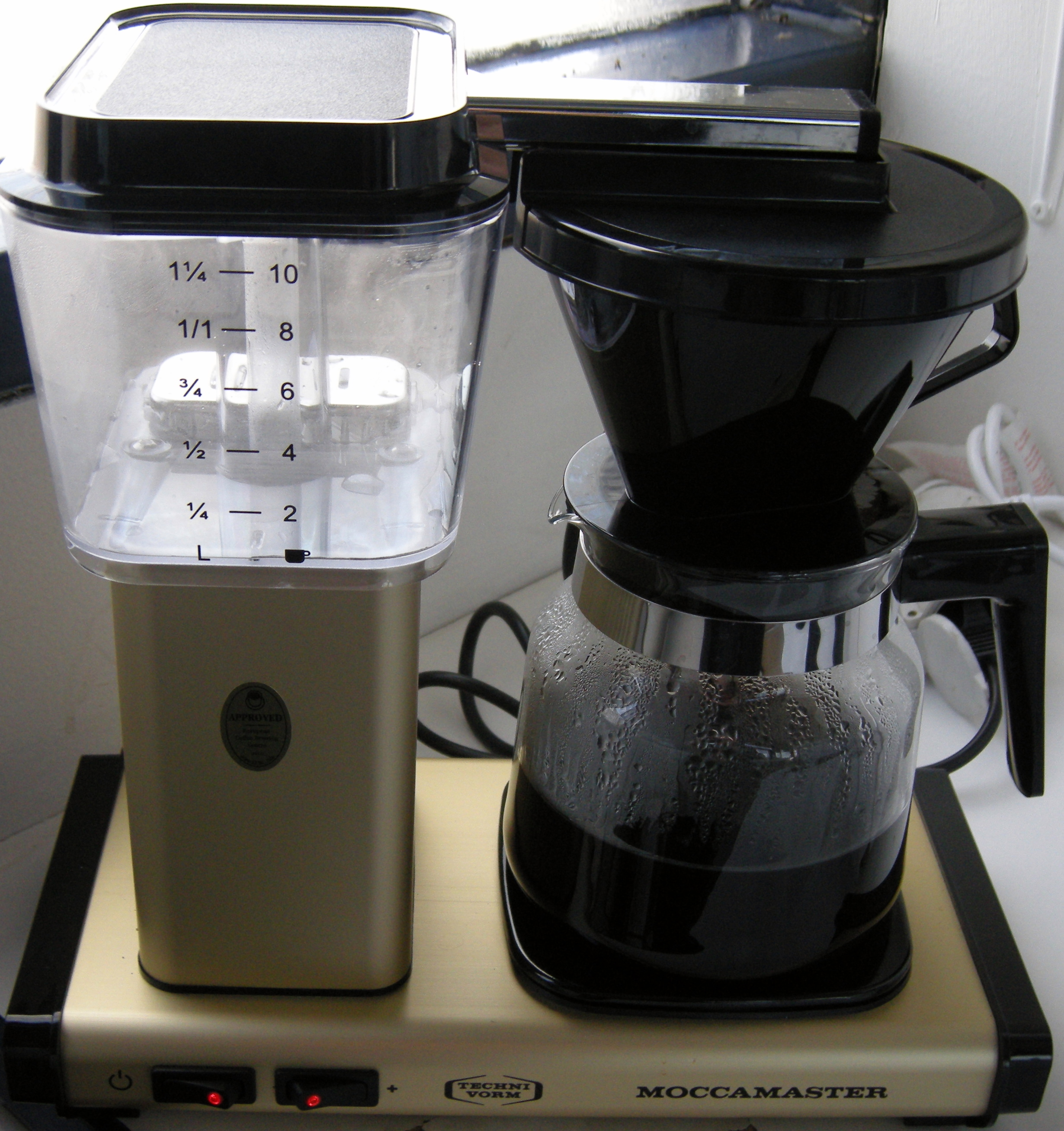 Moccamaster coffeemaker.